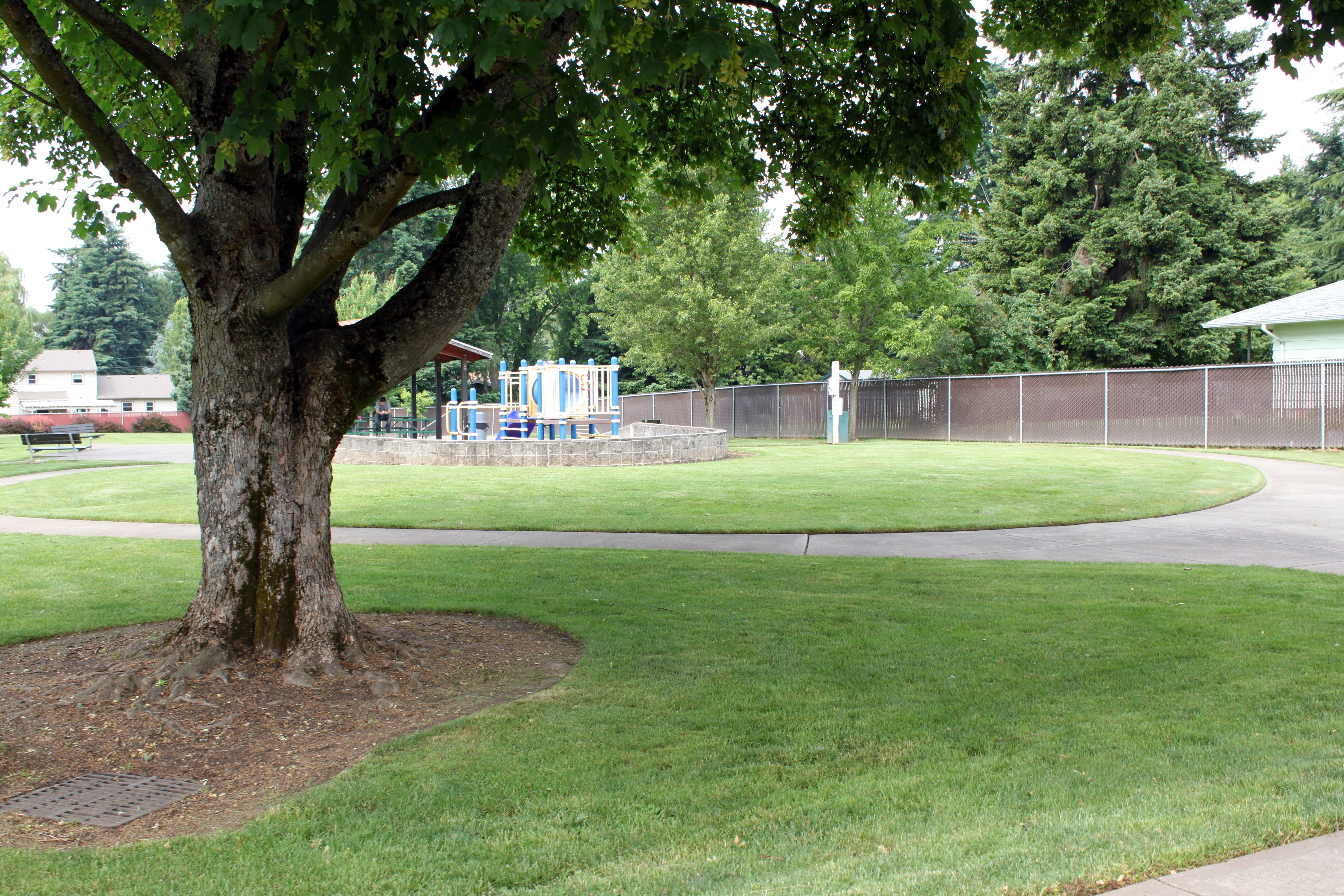 Ardenwald Park in Ardenwald-Johnson Creek, Portland, Oregon.